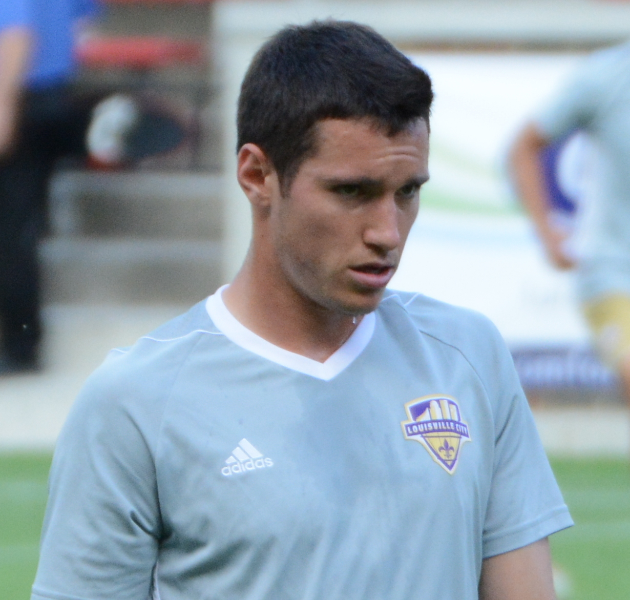 Kyle Smith Taken at a Lamar Hunt U.S. Open Cup match between FC Cincinnati and Louisville City FC at Nippert Stadium in Cincinnati, Ohio on May 31, 2017.